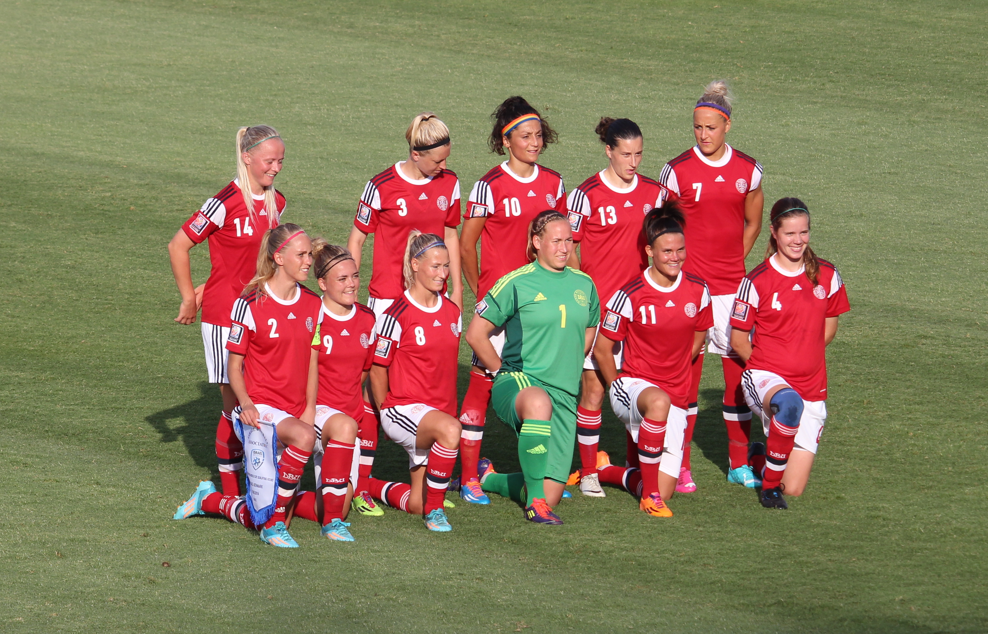 Israel - Denmark, 2015 FIFA Women's World Cup qualification UEFA Group 3, 19 June 2014.